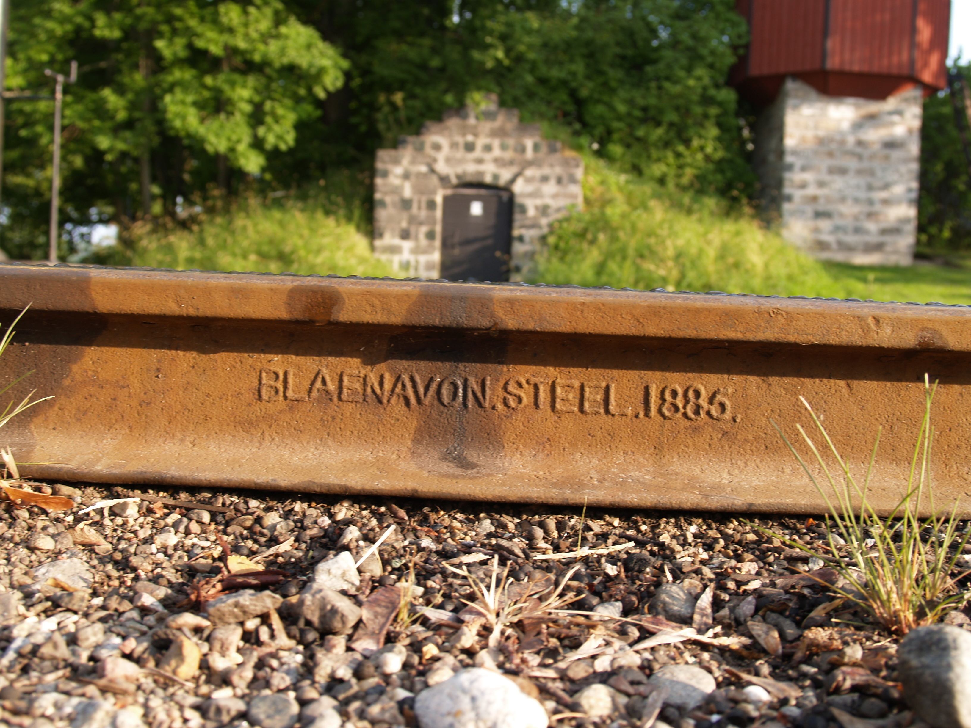 Rail, made by Blaenavon Steel in 1885, gesehen im Bahnhof Mariefred, Södermanland, Schweden